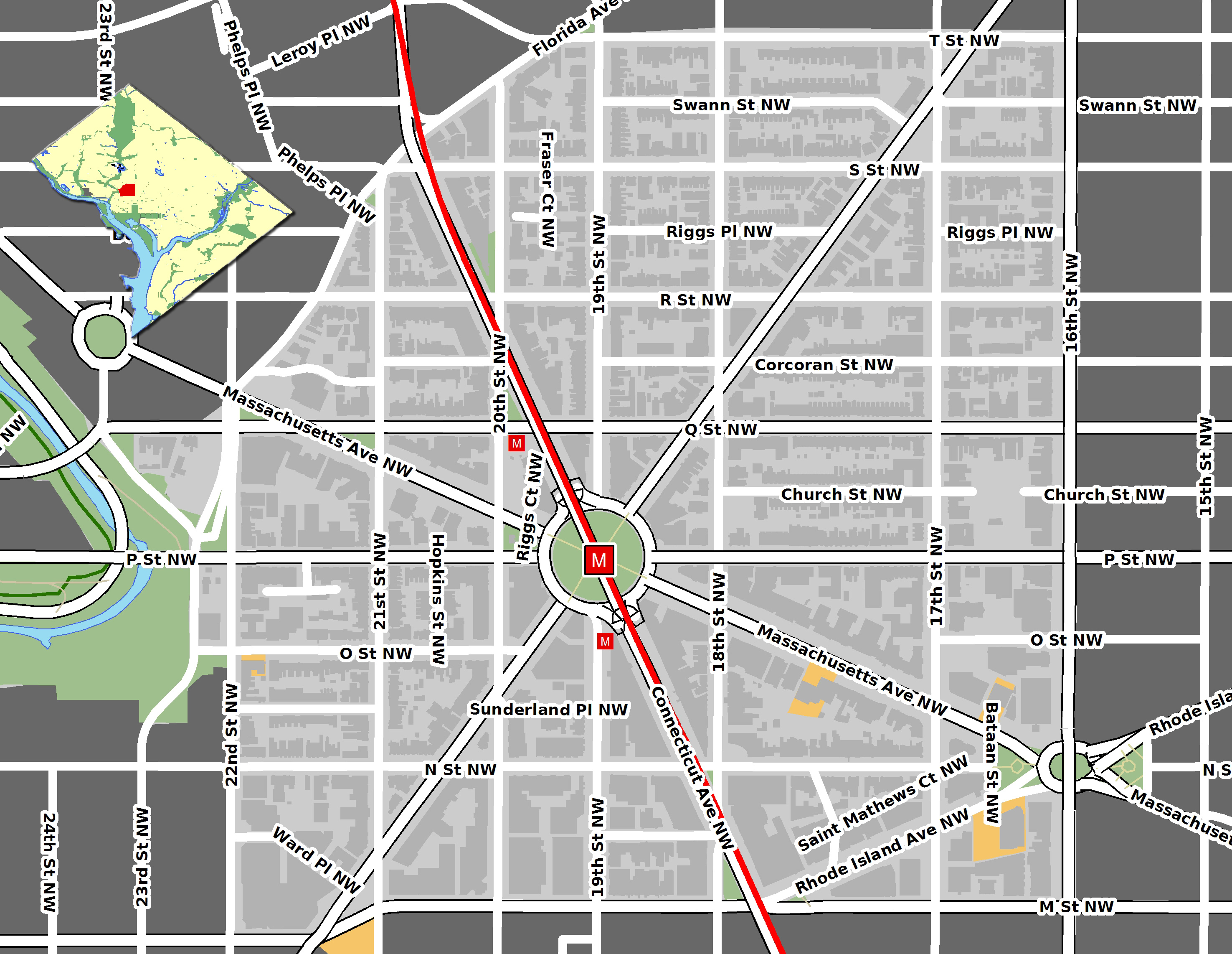 Map of the Dupont Circle neighborhood in Washington, D.C. GIS data comes from Open Street Map and DC GIS (okay to use here [1])